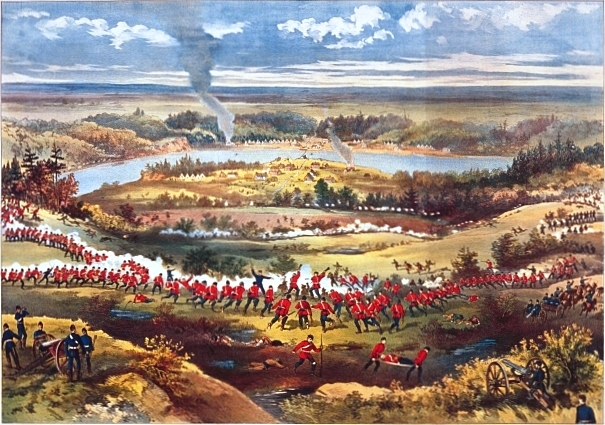 Print, The Capture of Batoche, F. W. Curzon, 1875-1925, 52.9 x 71 cm